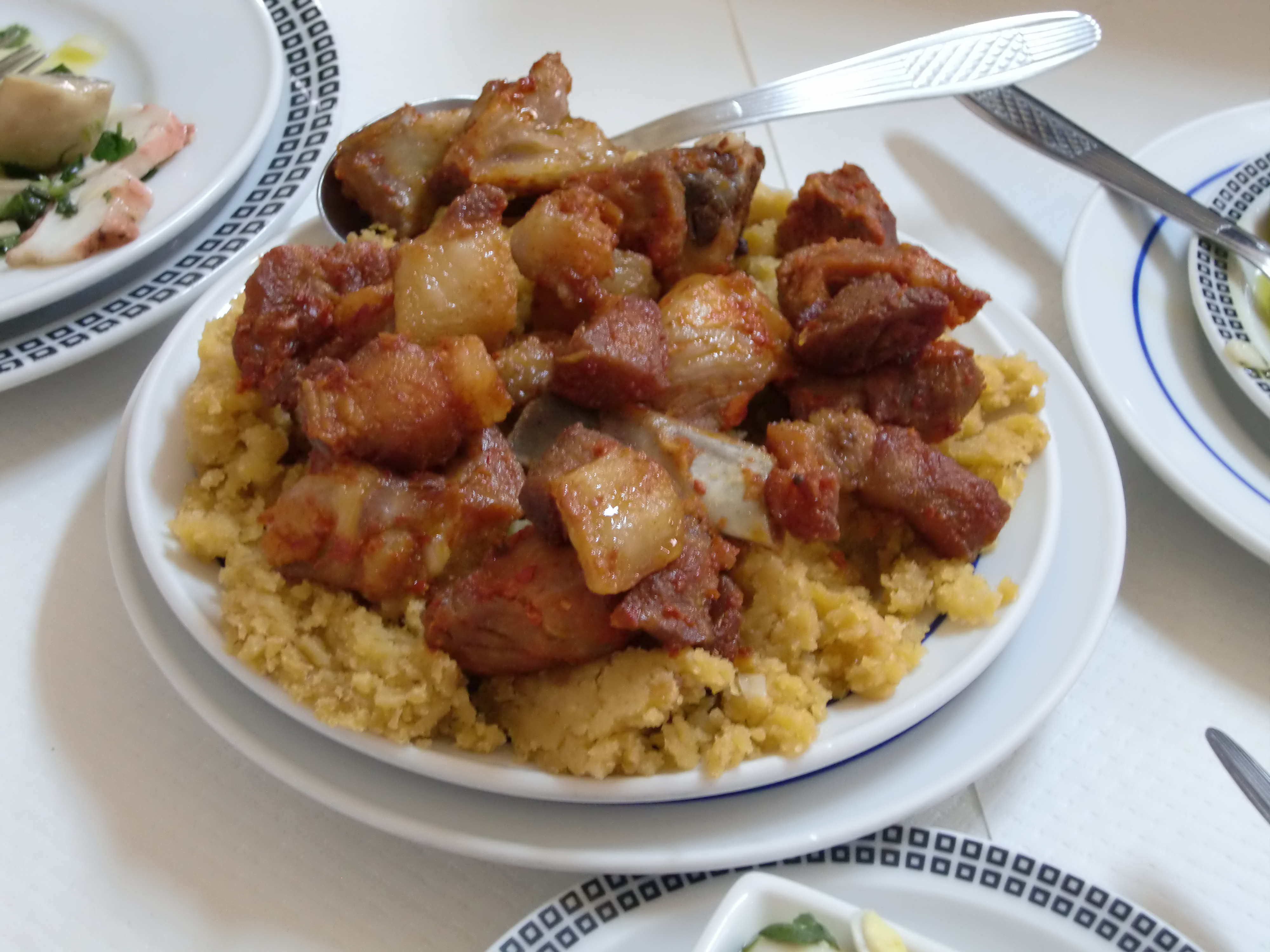 Typical Alentejo food. Pork and stuffing.